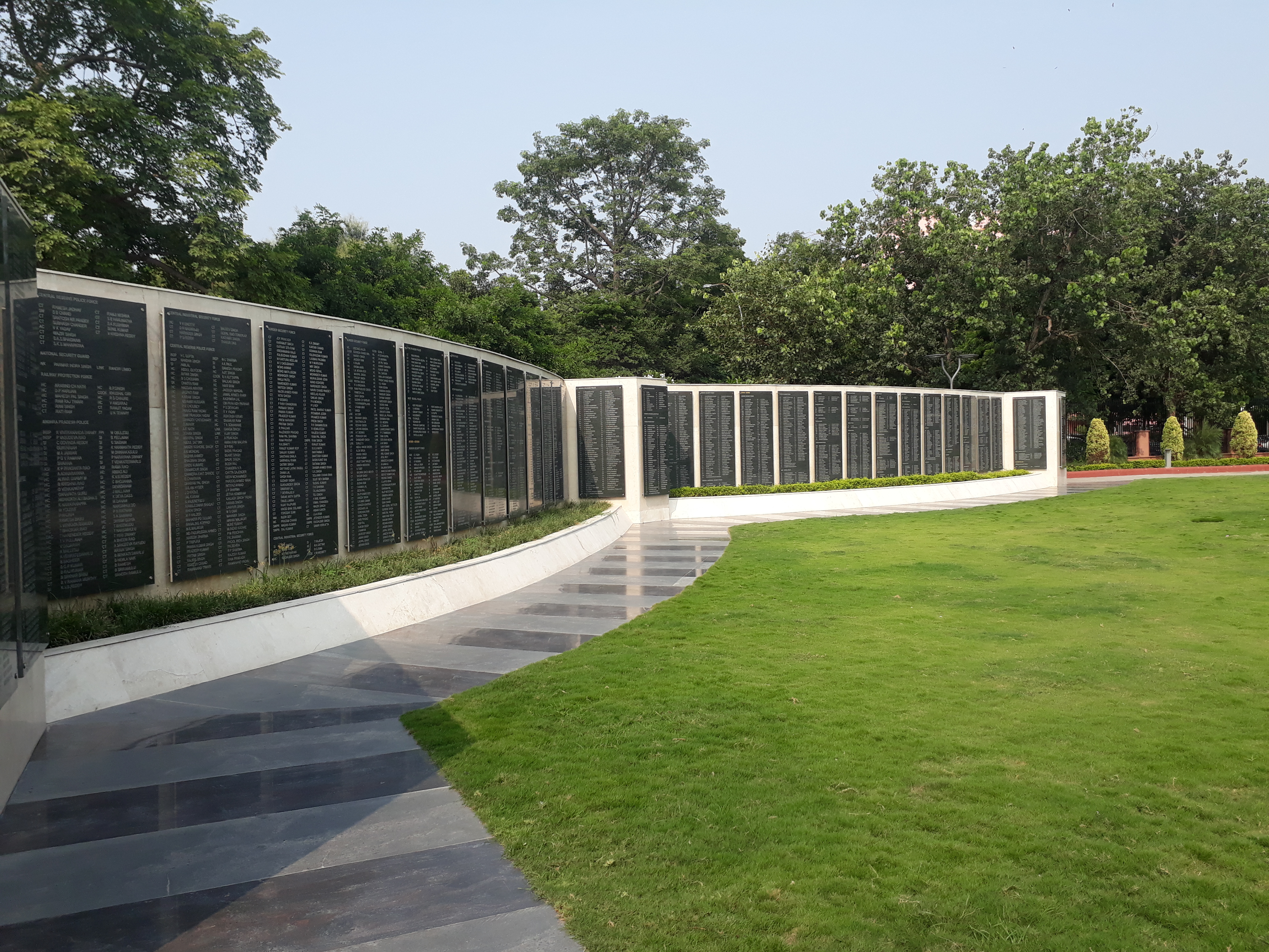 National Police Memorial in Chanakyapuri, a Monuments and memorials in New Delhi India.